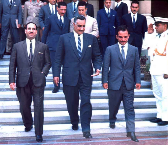 Arab heads of states arriving being recieved by President Gamal Abdel Nasser for the Second Arab League Summit in Alexandria. At the forefront from left to right: President Abdul Salam Arif of Iraq, President Nasser of Egypt, King Hussein of Jordan. The two men walking behind them are Egyptian Army Chief-of-Staff Abdel Hakim Amer (left) and President Ahmed Ben Bella of Algeria (right).